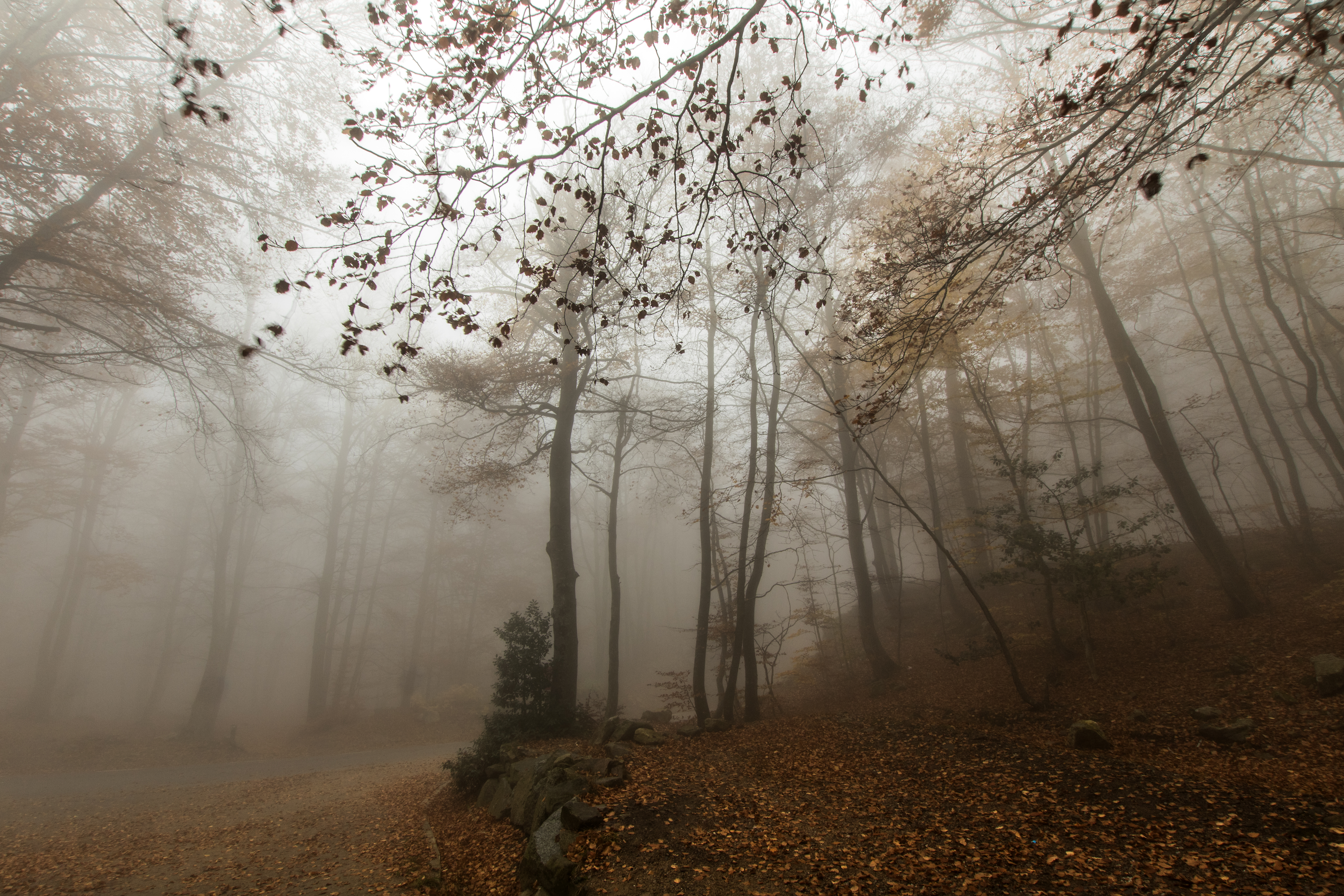 This is a photography of a Special Area of Conservation in Spain with the ID: ES5110001. Natura2000 entry, EEA entry